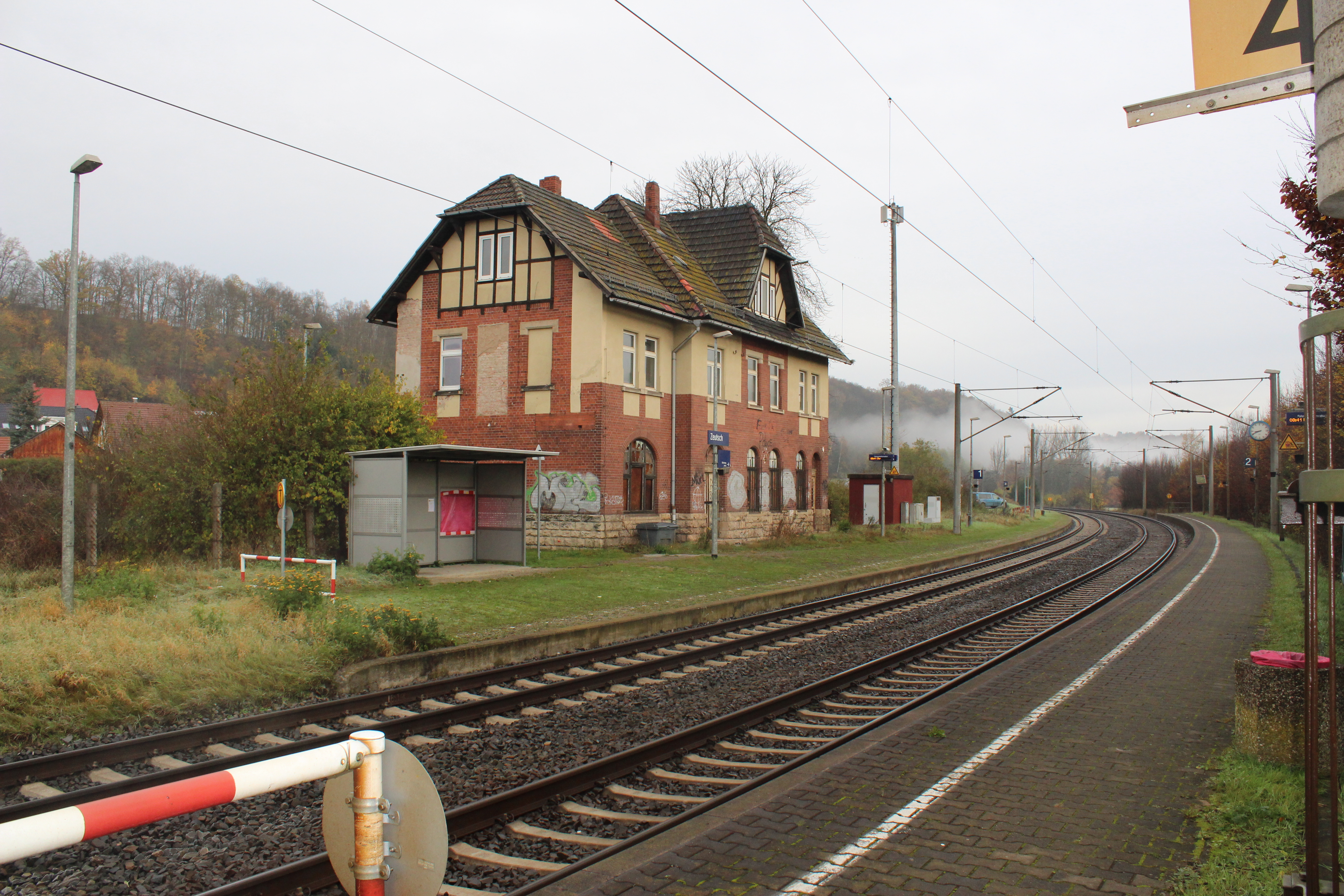 train station Zeutsch, platforms